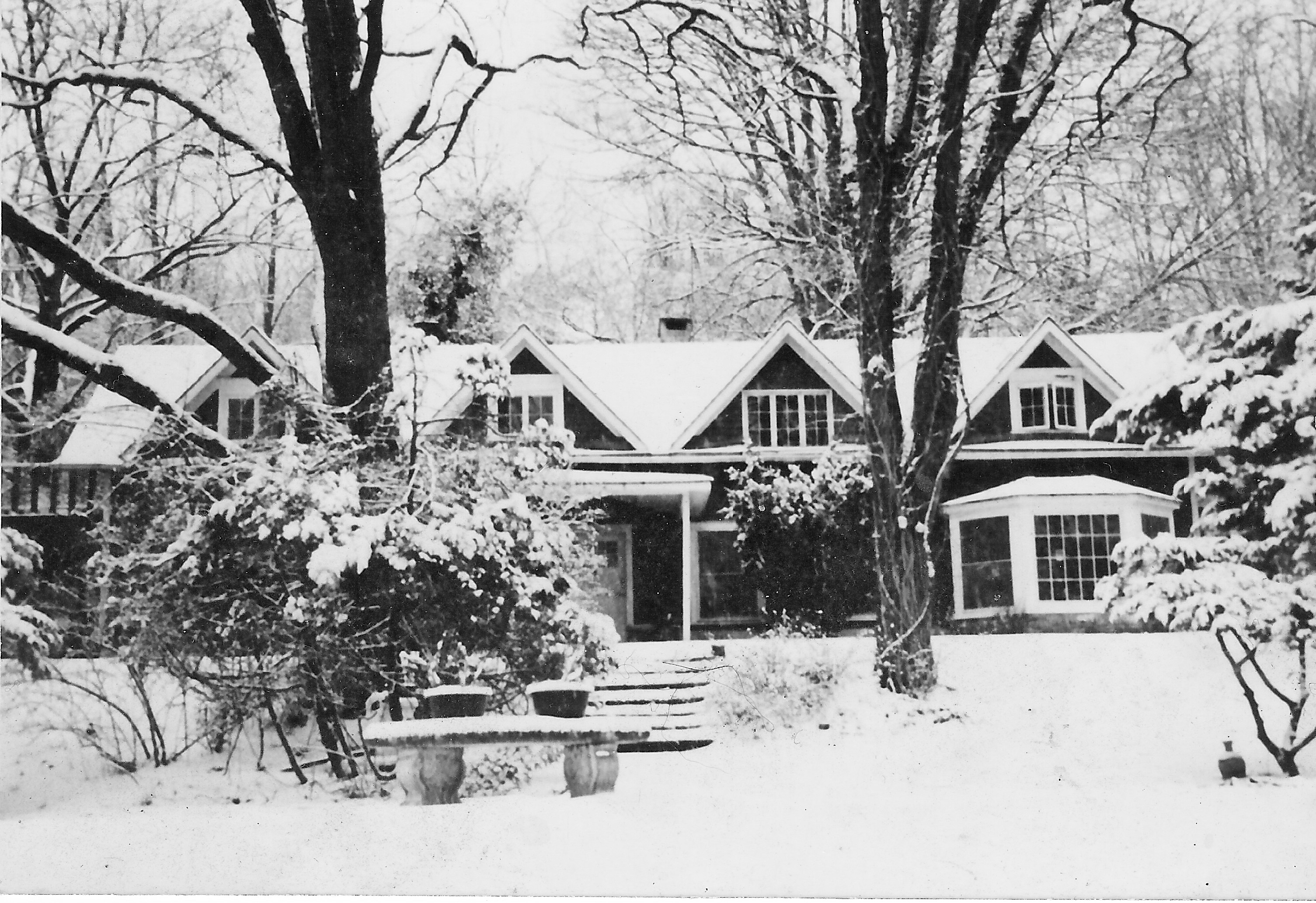 'Glen Gables,' the home of Mrs. Diane Washburn, New Hope, P.A.